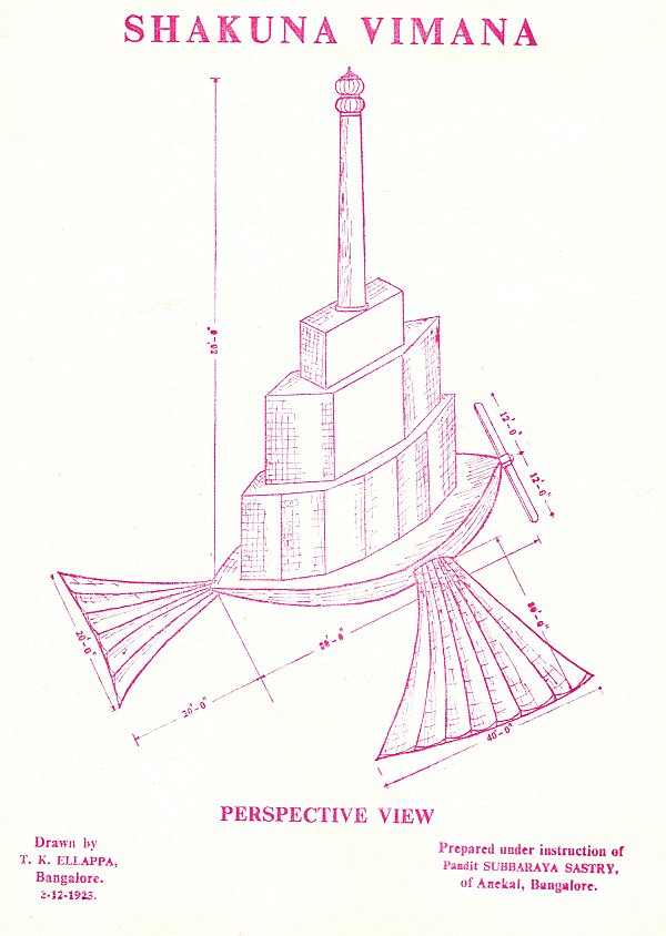 Illustration of the Shakuna Vahana from Vaimanika Shastra. Drawn in Bangalore in 1923 and out of copyright in India.